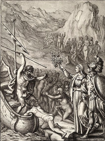 Aeneas and Charon(detail)